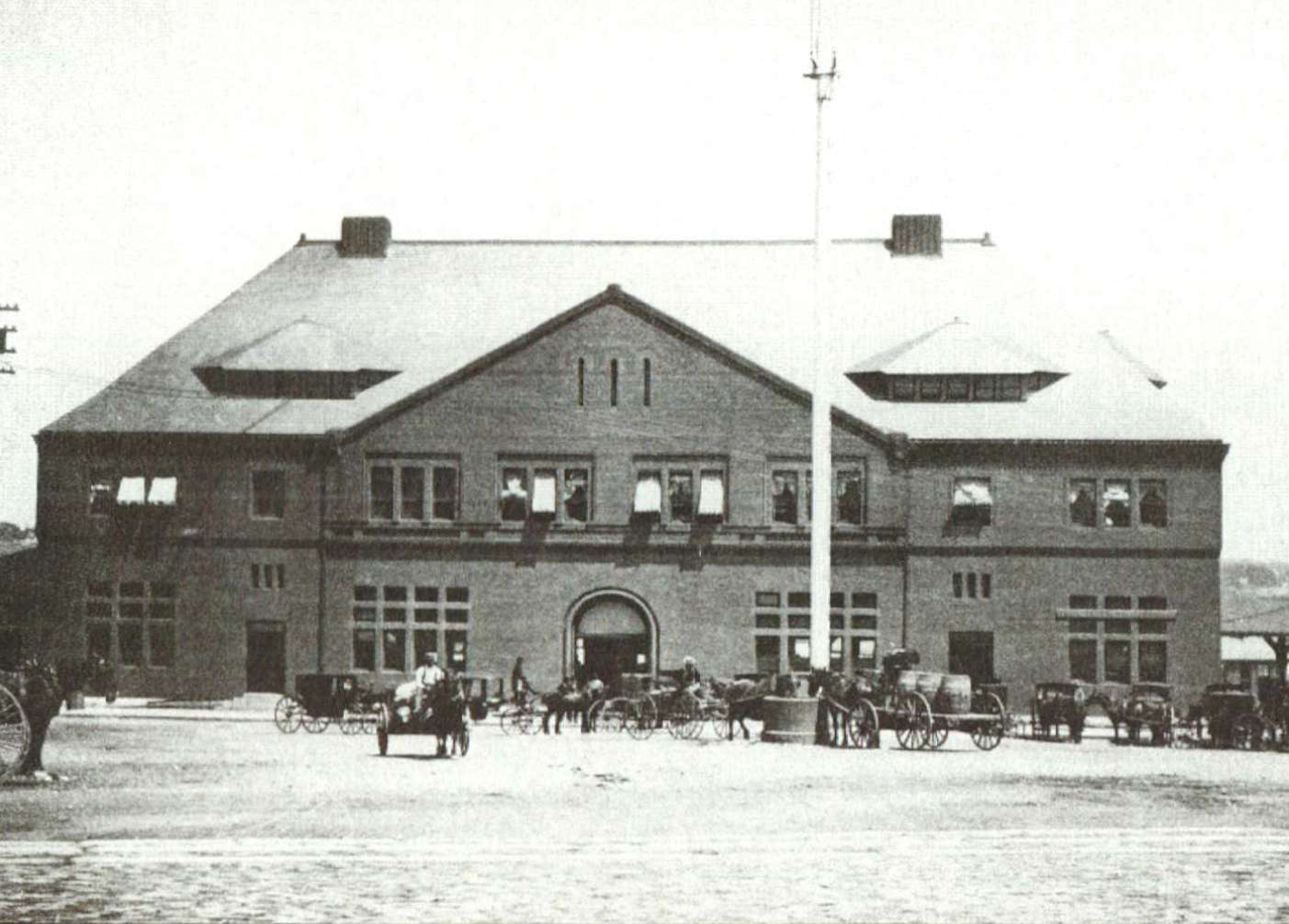 New London Union Station shortly after construction. This image dates to between 1887 (construction) and 1896 (placement of Soldiers and Sailors monument).